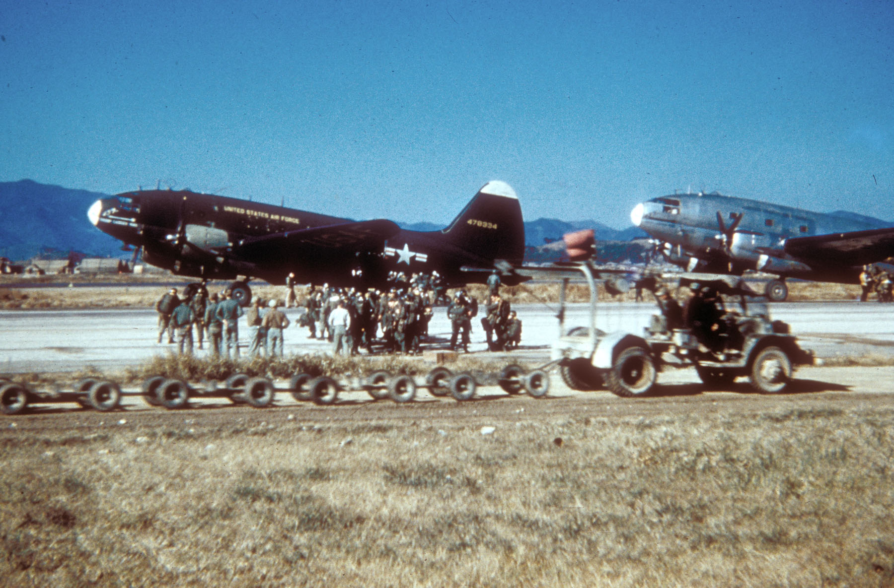 A dark painted U.S. Air Force Curtiss C-46D-15-CU Commando (s/n 44-78334) from the 437th Troop Carrier Wing in Korea. The wing operated from Itazuke Air Base, Japan, from 8 November 1950 to 10 June 1952. The C-46 44-78334 was later sold to Japan.